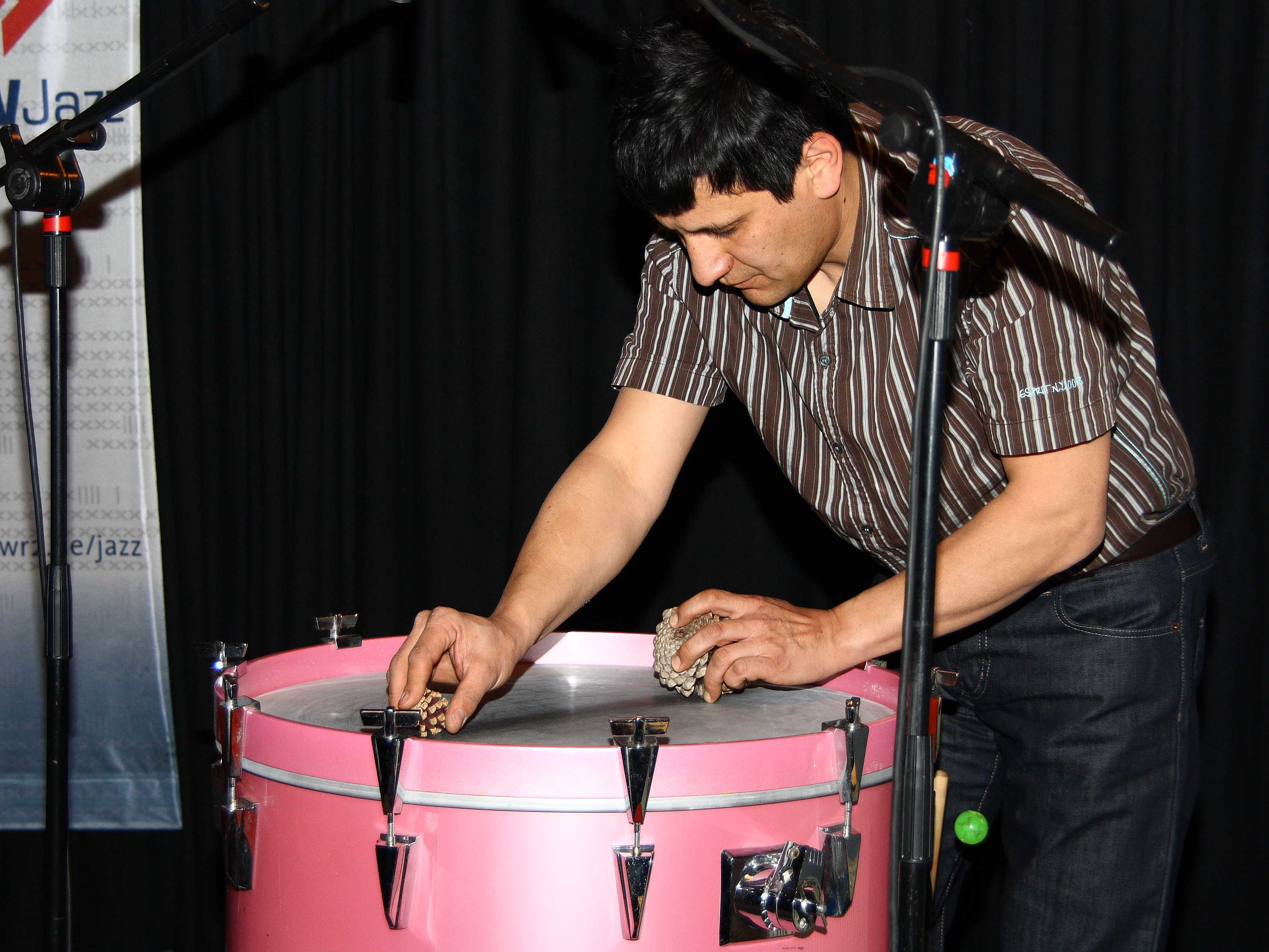 Lê Quan Ninh is a french jazz-percussionist. Here at NOW Jazz-Konzert with Christine Sehnaoui and Wilbert de Joode at Club W71, Weikersheim.